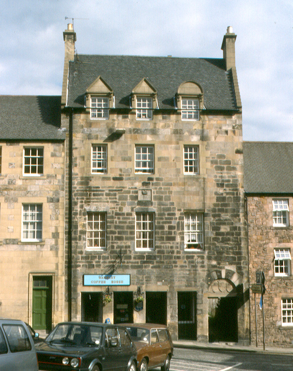 Lord Darnley, second husband of Mary, Queen of Scots, stayed in this house at the foot of Broad Street when the Queen came to Stirling.